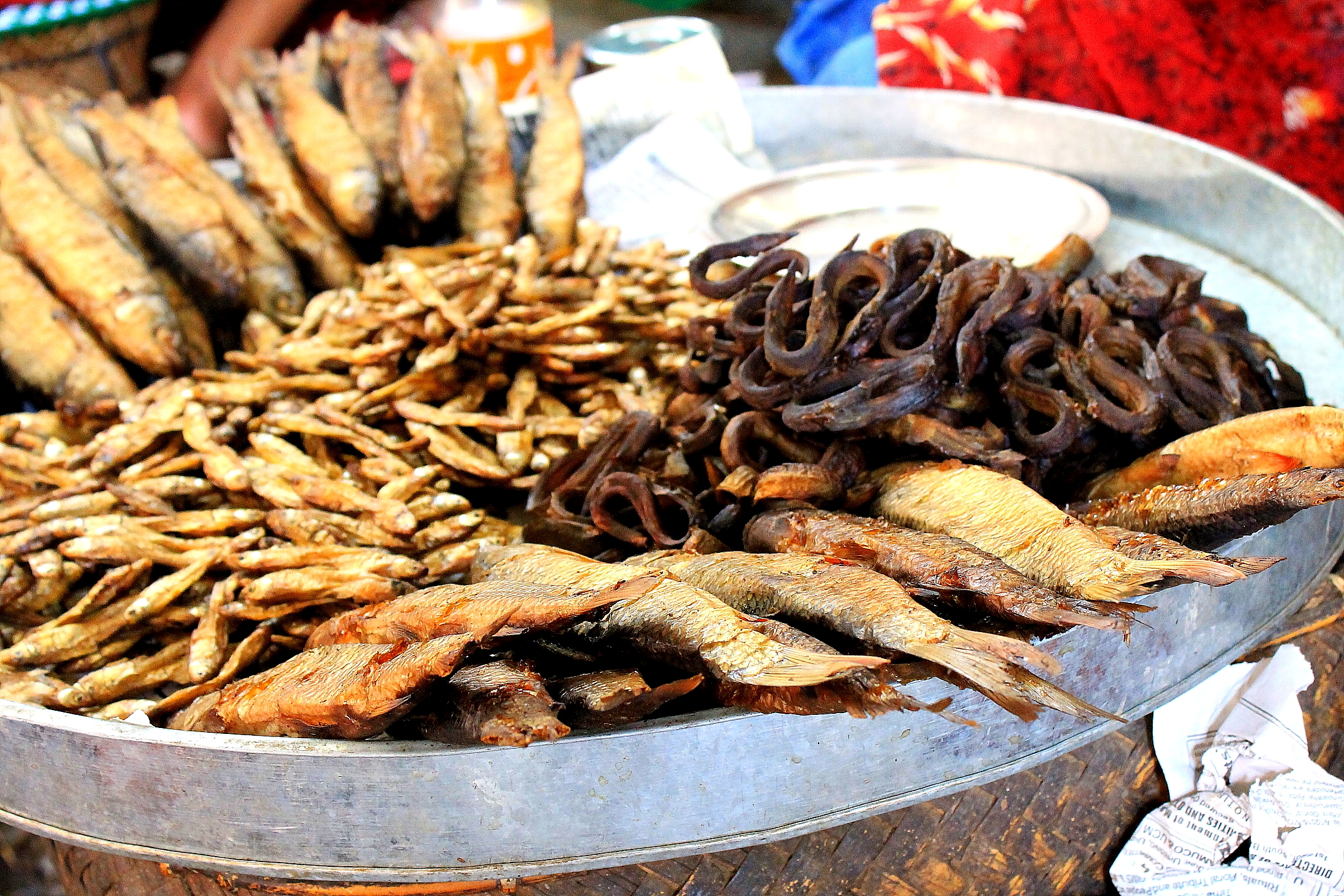 Assorted dried fishes at Eema Bazaar, Imphal, Manipur. (Eema - Mother, Eema Bazaar - a bazaar in Imphal "manned" exclusively by women.)